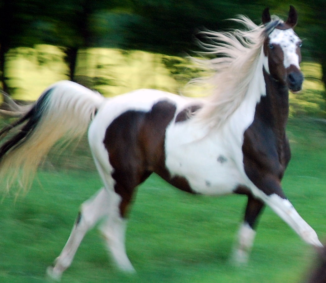 Frostfire Legacy, 2008 Pintabian mare bred by Amy M. Dagen of Frostfire Farm, Lake Park MN USA, and registered with the Pintabian Horse Registry, Inc.